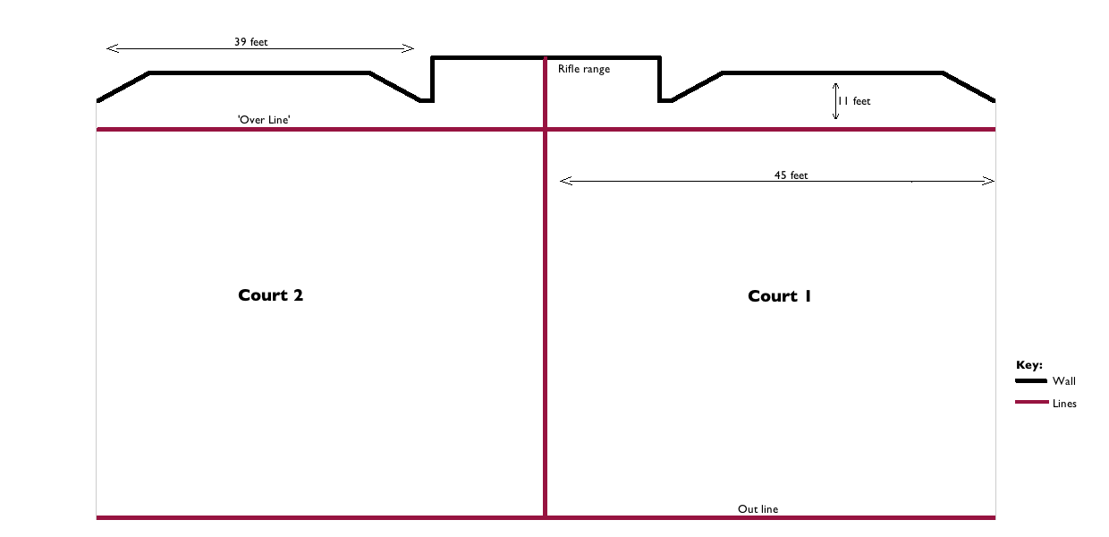 The Downside Ball Place with updated markings.